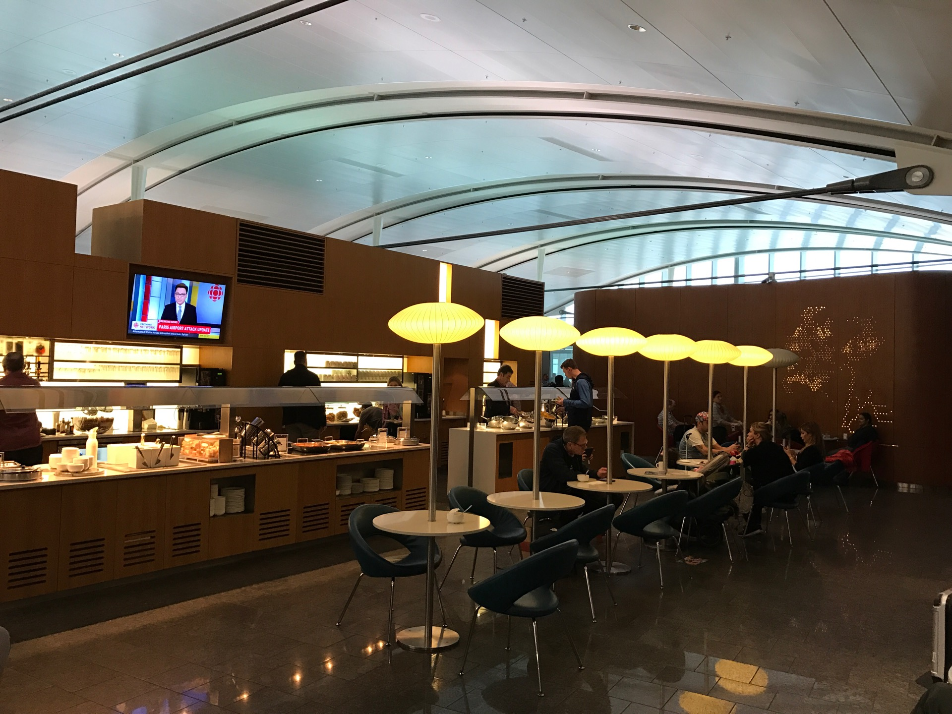 I'm at Maple Leaf Lounge (International)!